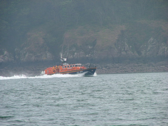 Angle Lifeboat. "The Lady Rank" Angle Tyne Class lifeboat on call 5th May 2007, in Chapel Bay having just been slipway launched .